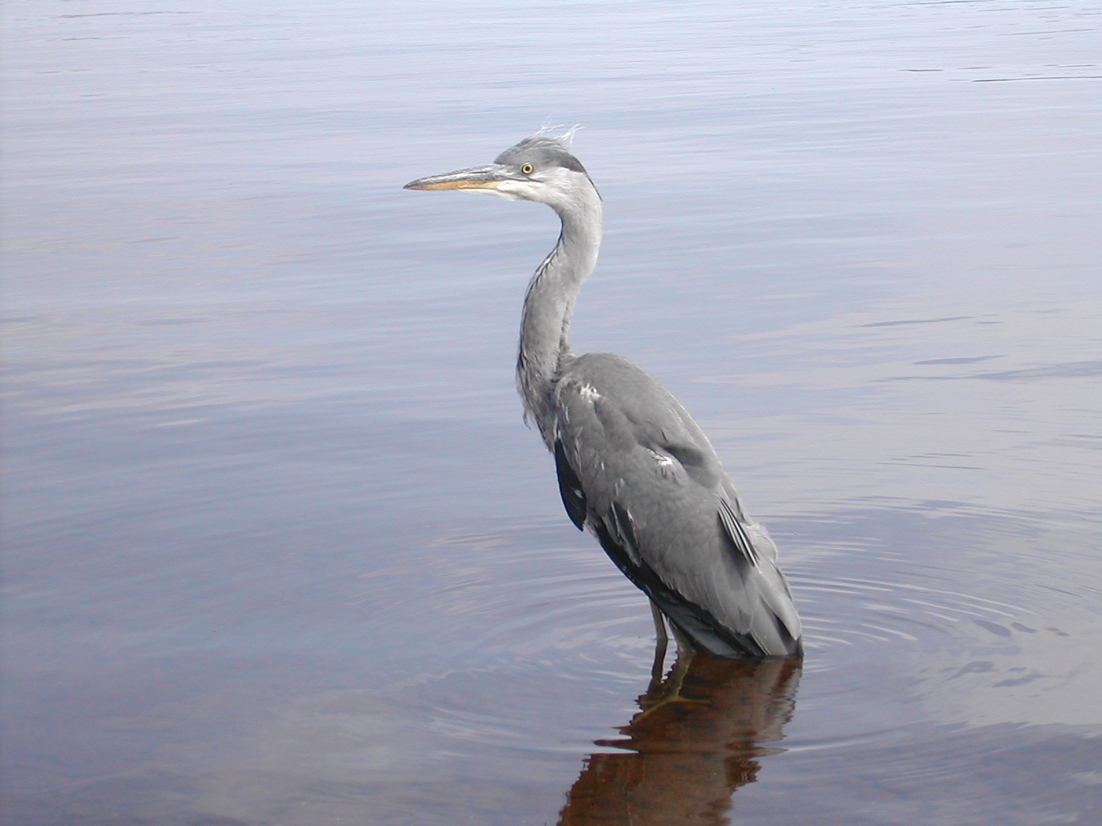 Ardea cinerea in Färnebofjärden national park